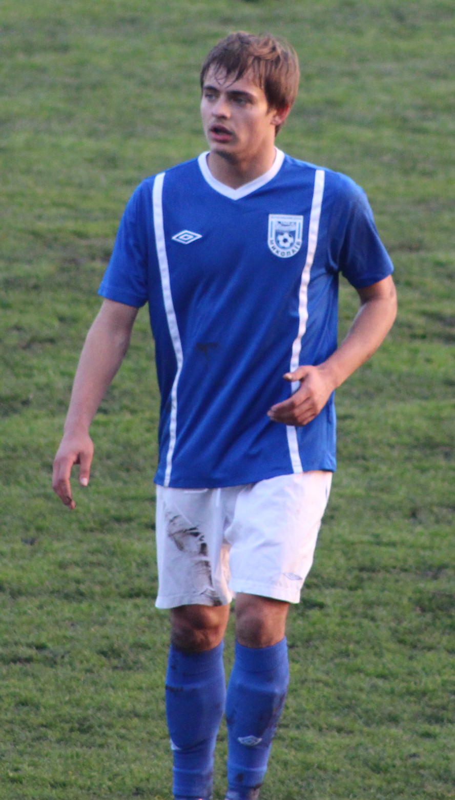 Artem Chornii